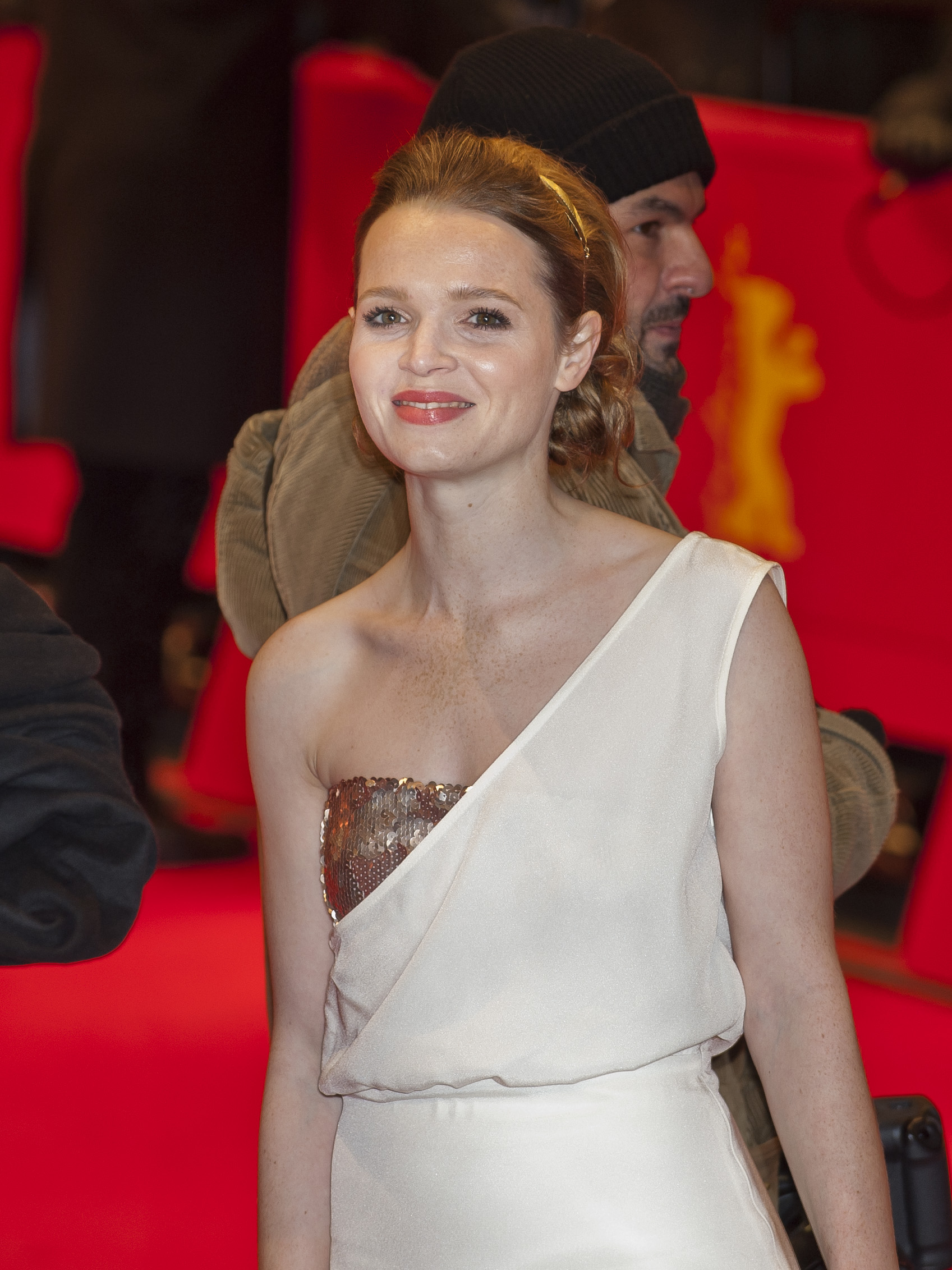 Karoline Herfurth, German actress, Berlinale 2012, ARD Degeto Blue Hour Party